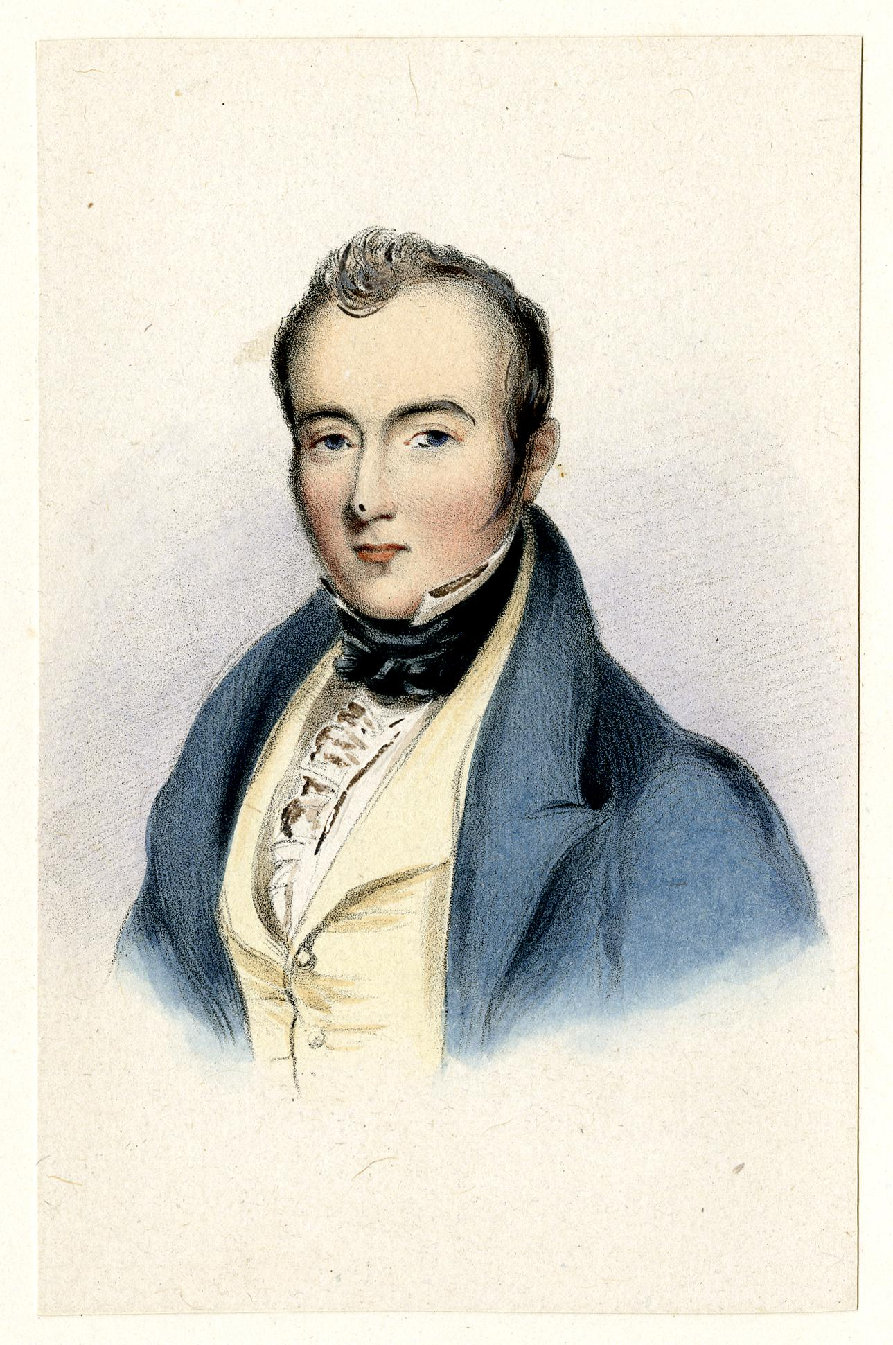 Portrait of Sir William H Macnaghten, nearly half-length to left, looking to front; wearing an open coat over buttoned waistcoat, neckerchief and frill; image mounted on card; after Eyre. Lithograph with hand-colouring